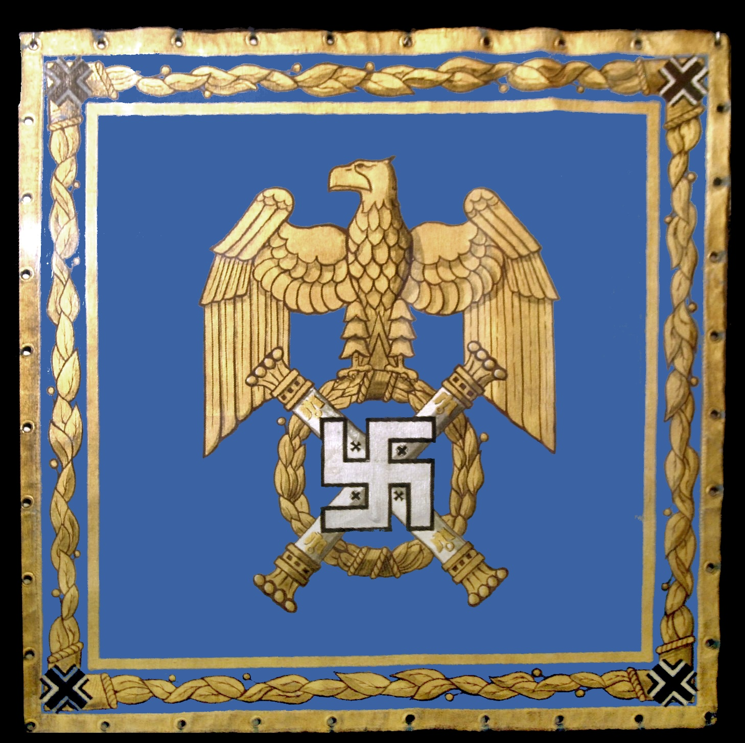 Personal standard for Hermann Göring as Reichsmarschall (2nd pattern) This image was taken at the Musée de l'Armée, Paris.